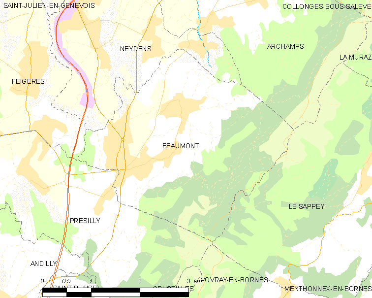 Map of French municipality Beaumont